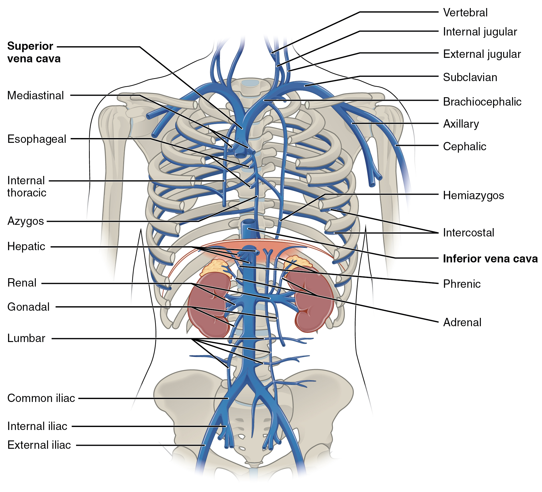 Illustration from Anatomy & Physiology, Connexions Web site. Jun 19, 2013.